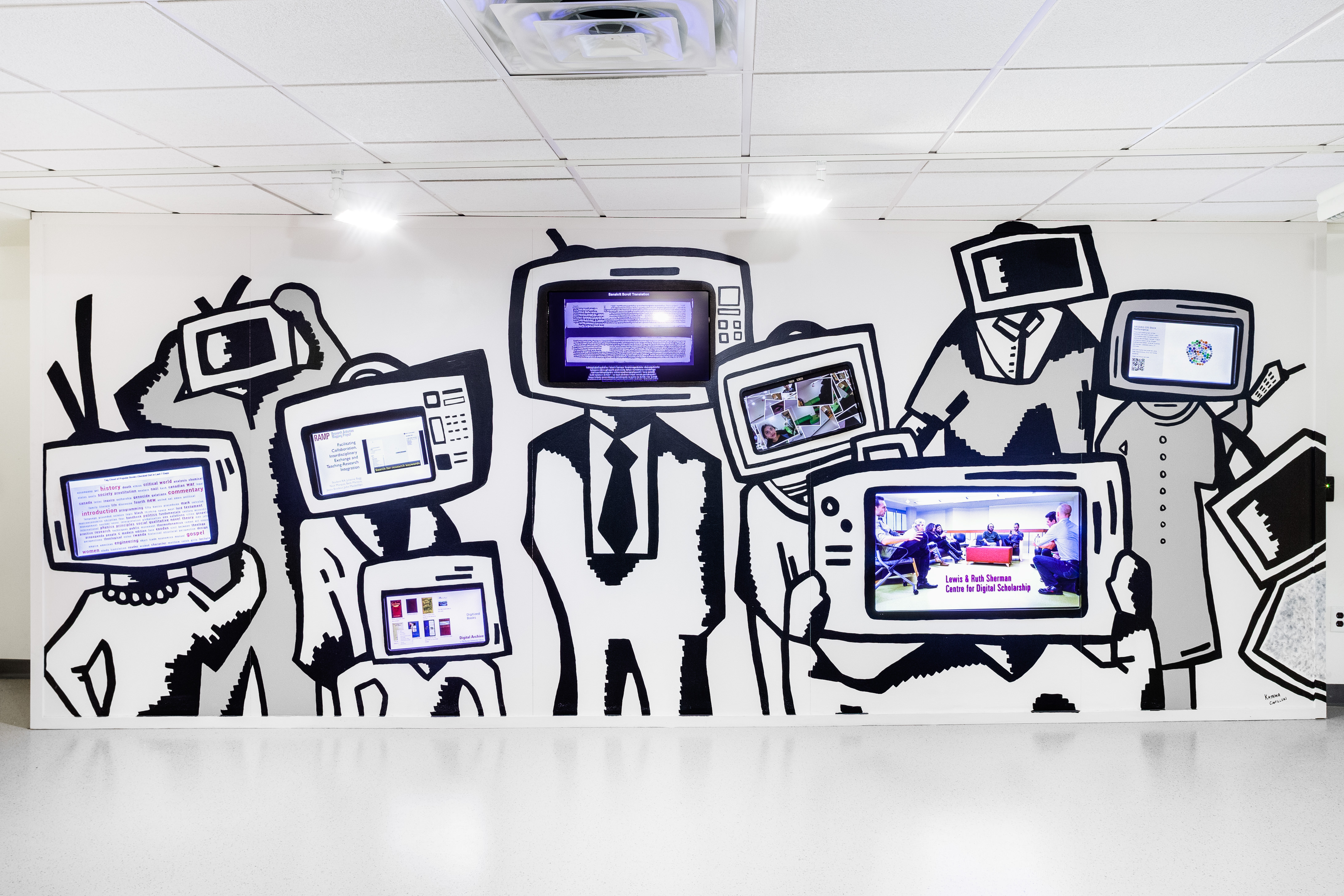 March 12, 2015; Hamilton, Ontario, Canada; Mills Memorial Library - McMaster University. Photo by Ron Scheffler for McMaster University.